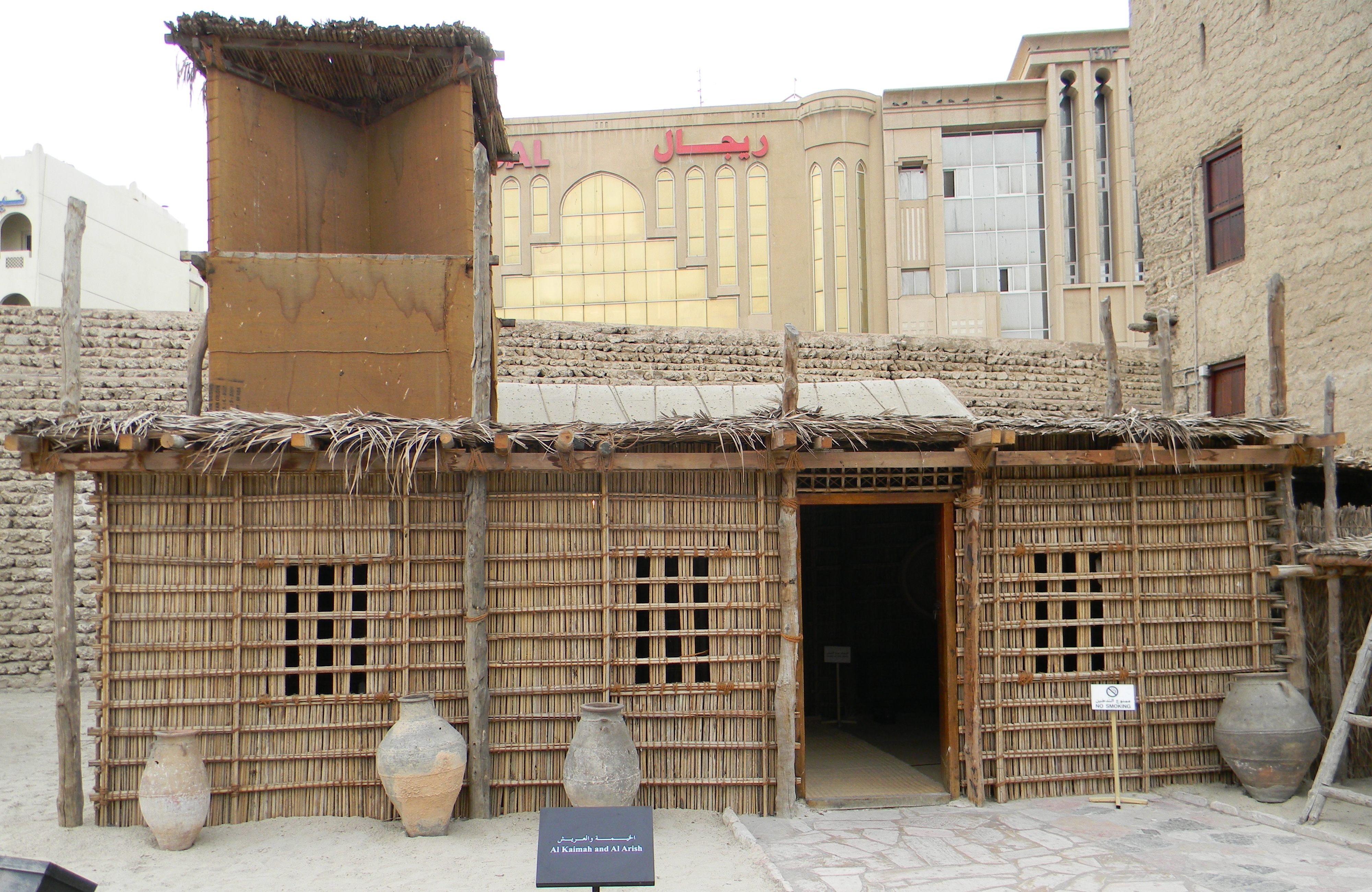 Al kaimah. Vernacular architecture of UAE.